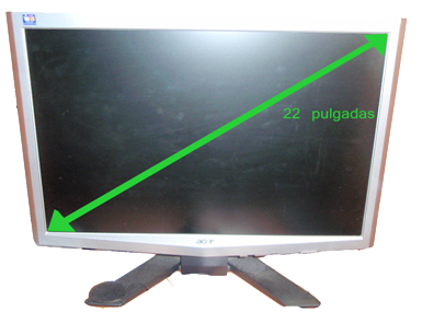 LCD Monitor. Size Measurement for TFT screens.